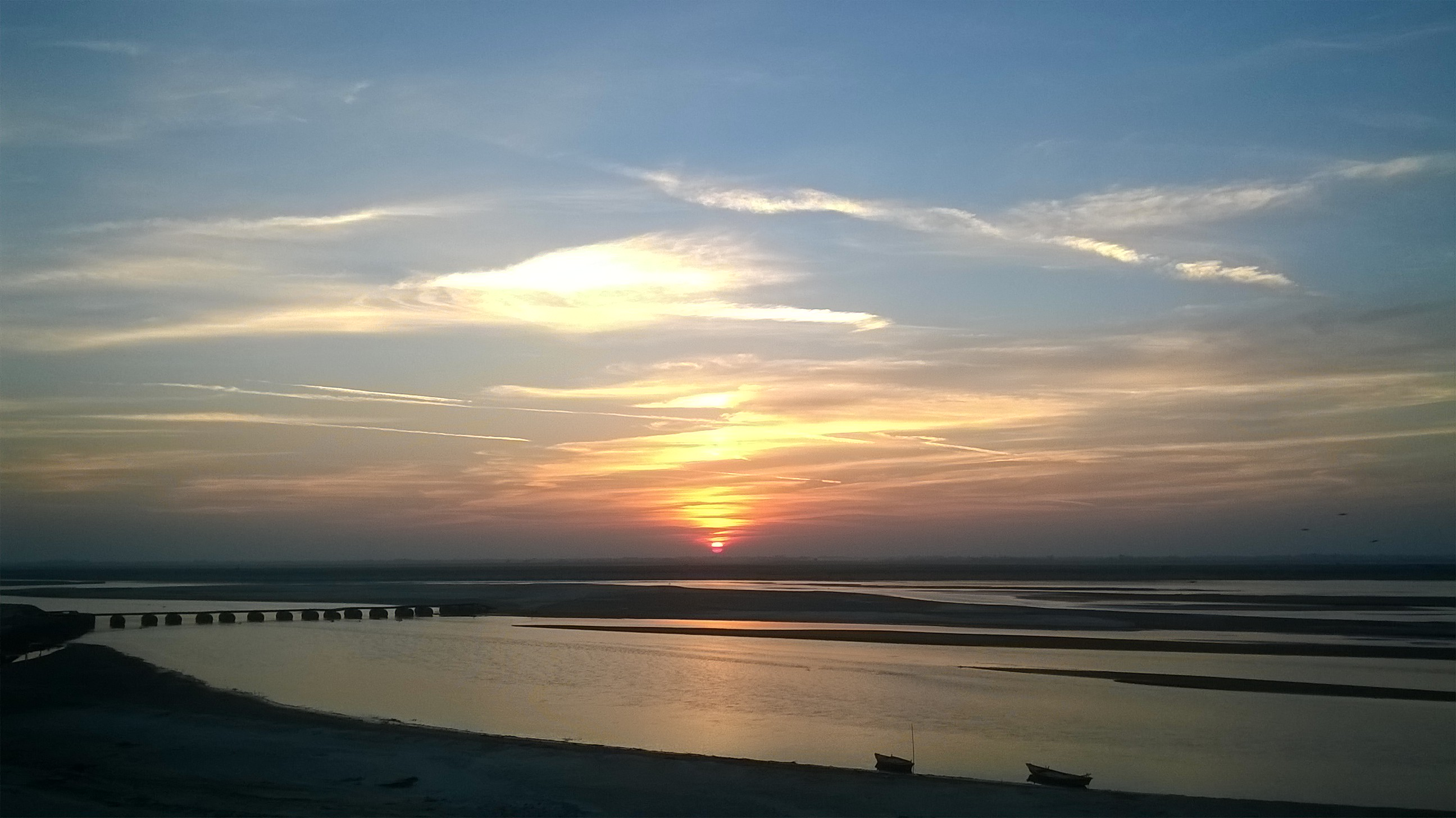 Ghaghara River Bahraich at Chahlari Ghat Bridge Sunset snapped by faranjuned